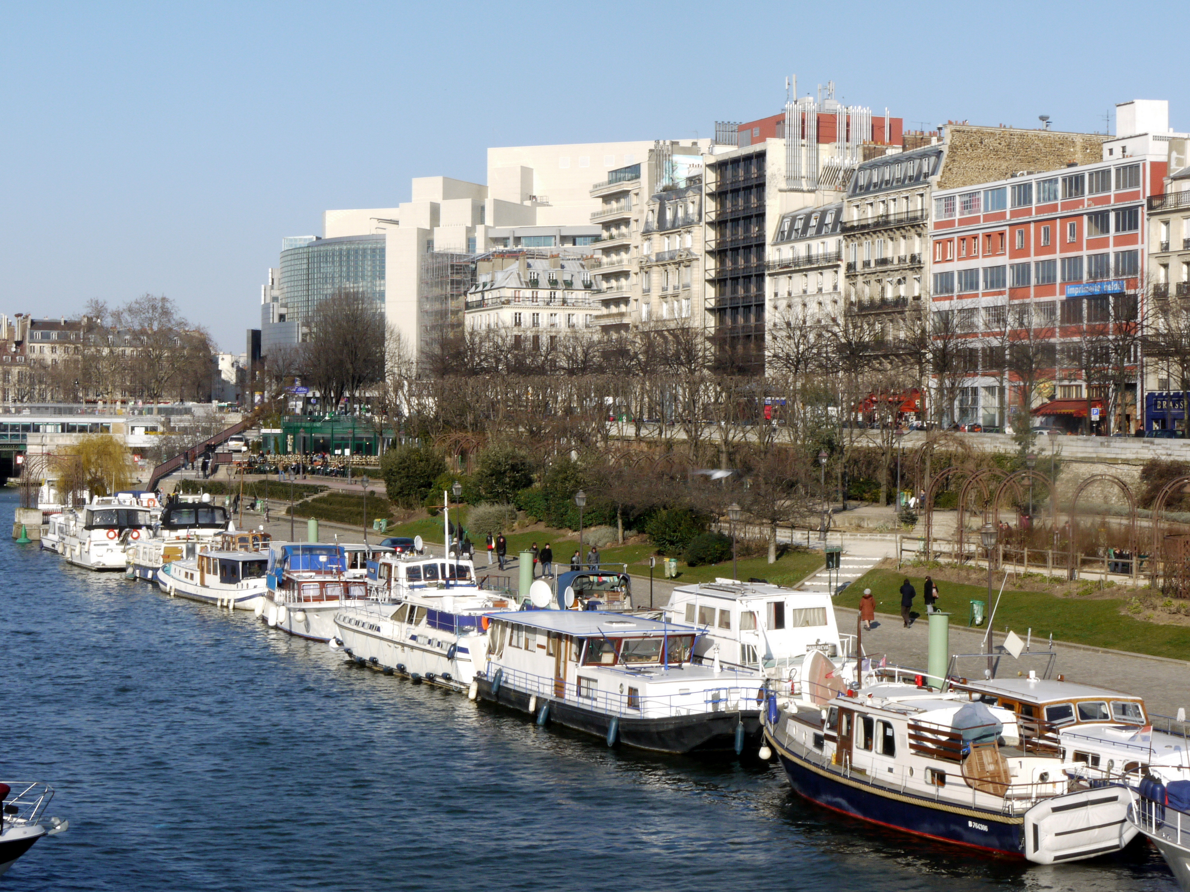 Bassin de l'Arsenal, Paris